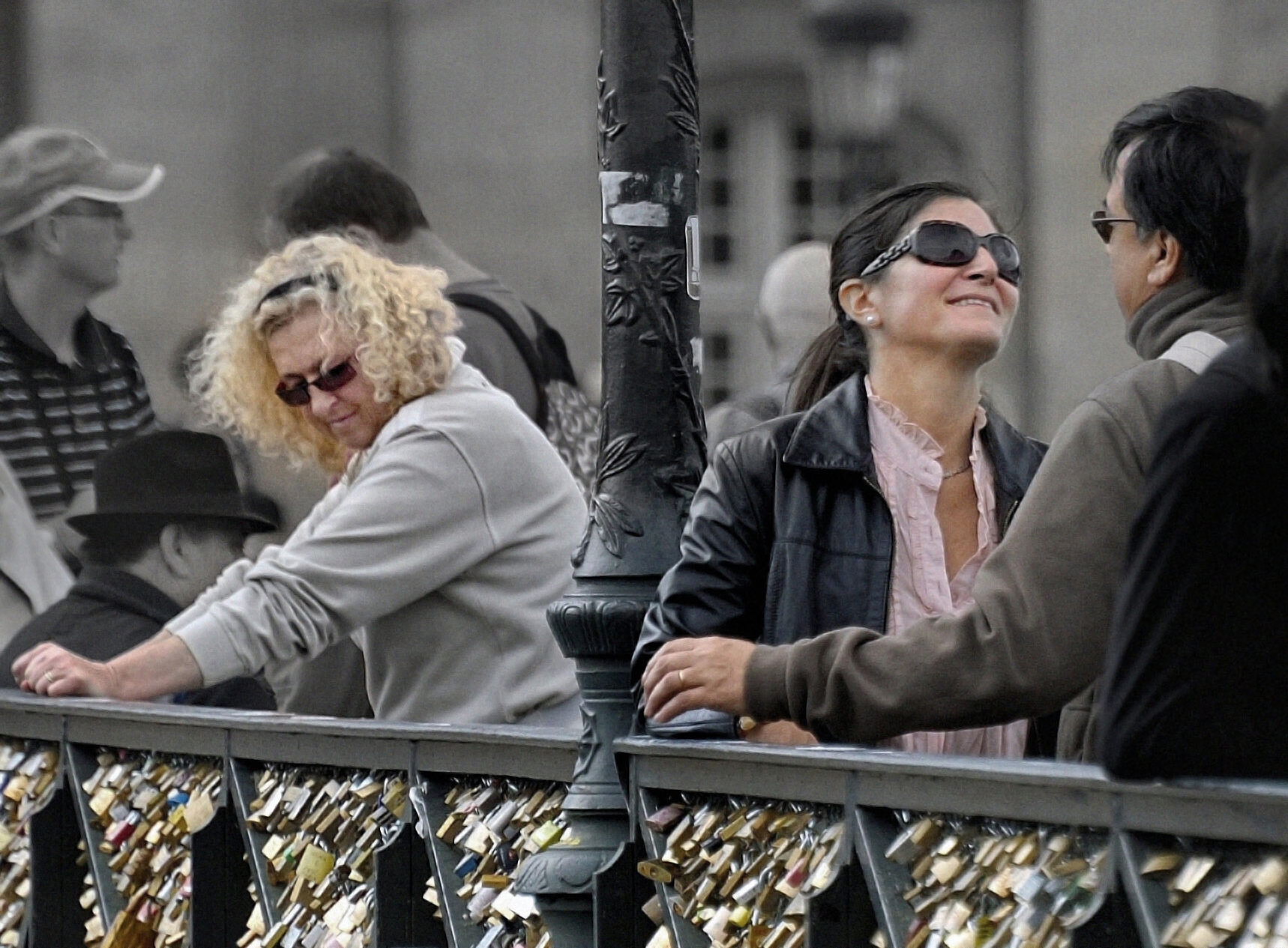 Lovers on the Pont des Arts. Paris. France. 2012